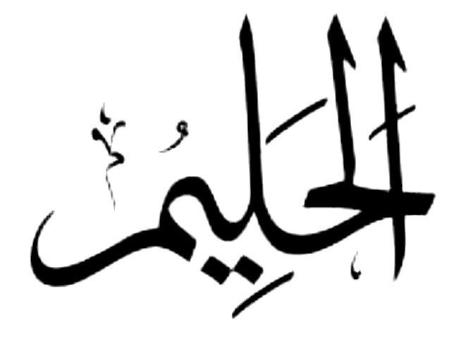 Al Haleem / The Forbearing / The Indulgent is a name of God in Islam, is a name of Allah.